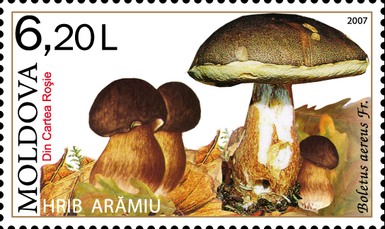 Stamp of Moldova